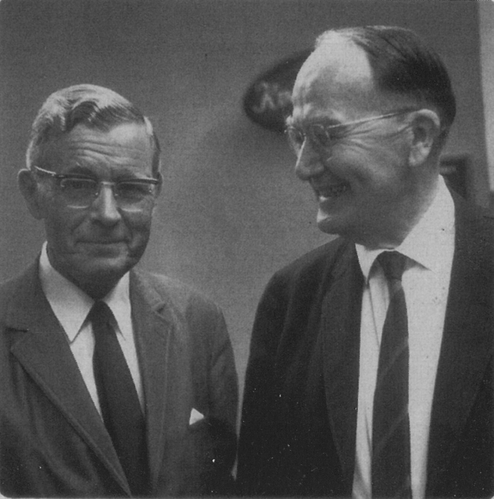 Photograph of the Finnish sociologist Heikki Waris (1901–1989) and American philosopher Douglas V. Steere (1901–1995).